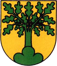 Blazon of Monthey - Blazono de Monthey